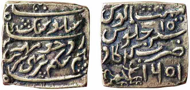 Assam Shiva Simha Square coin